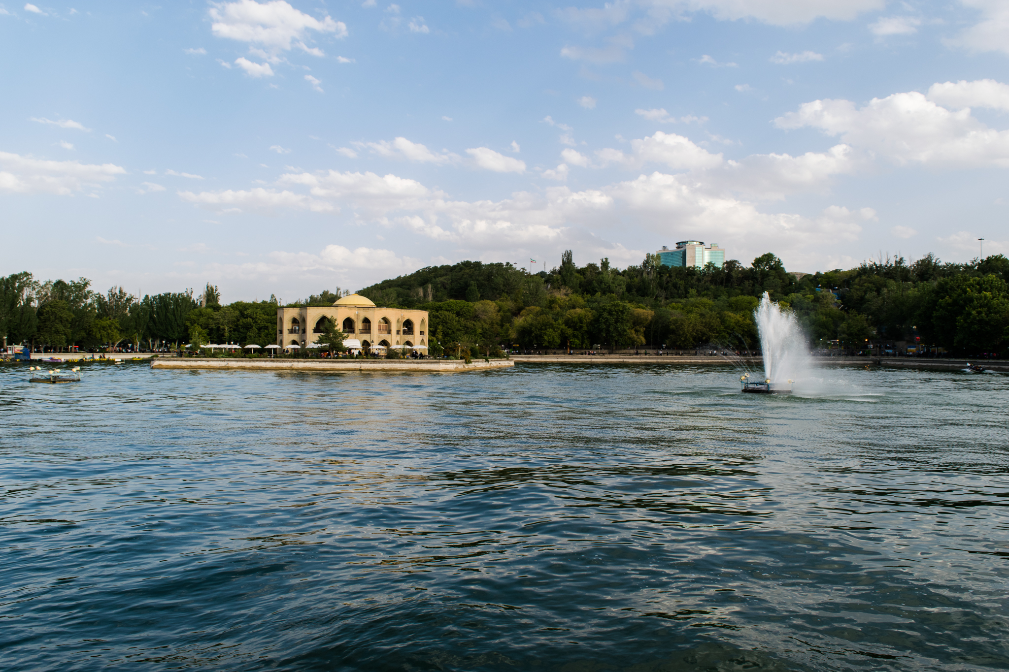 El Goli Park, Tabriz, Iran